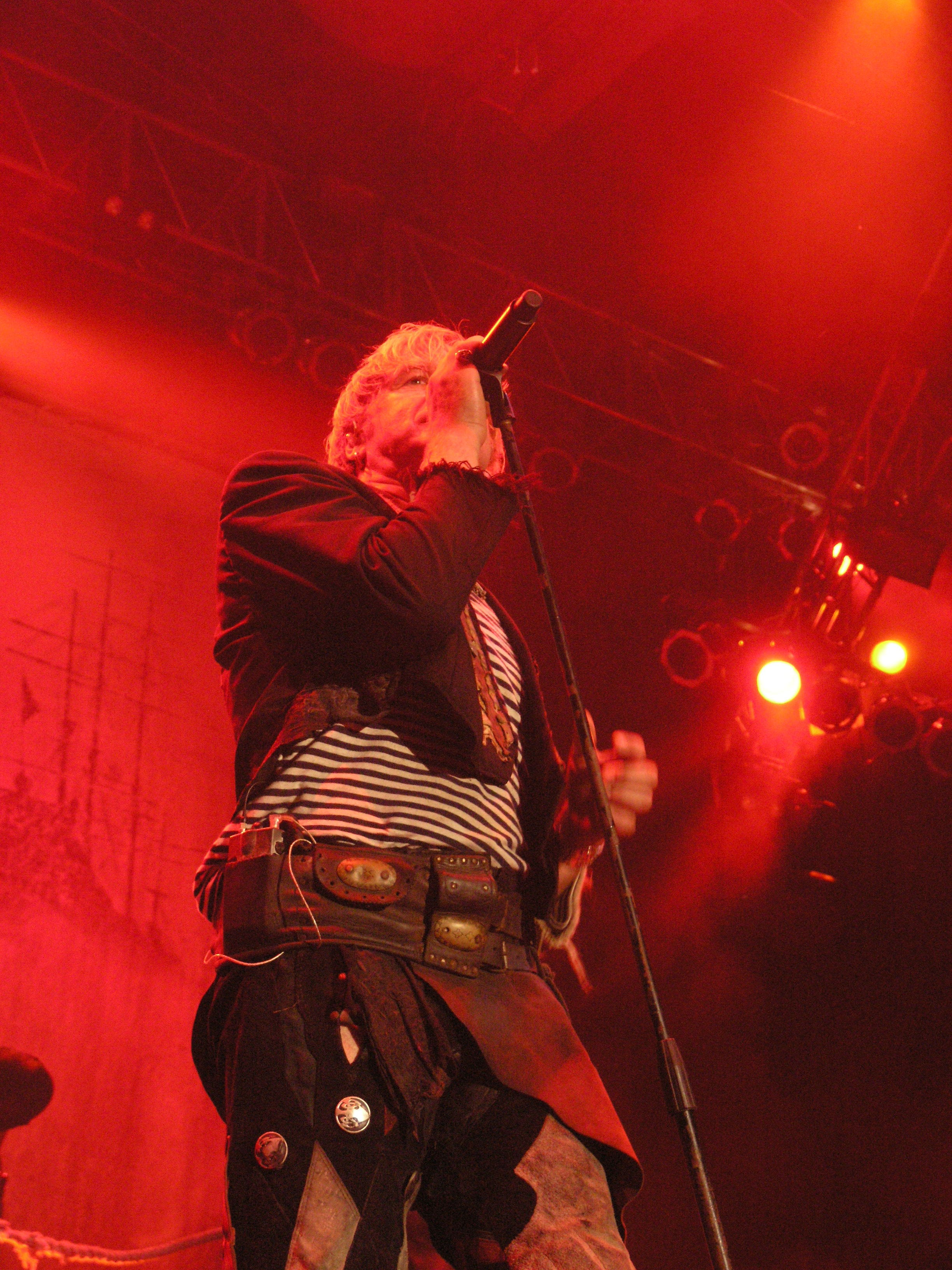 Michael Robert Rhein from In Extremo during Masters of Rock 2007 festival